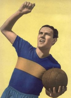 Luis Alberto Carniglia, Boca Juniors footballer